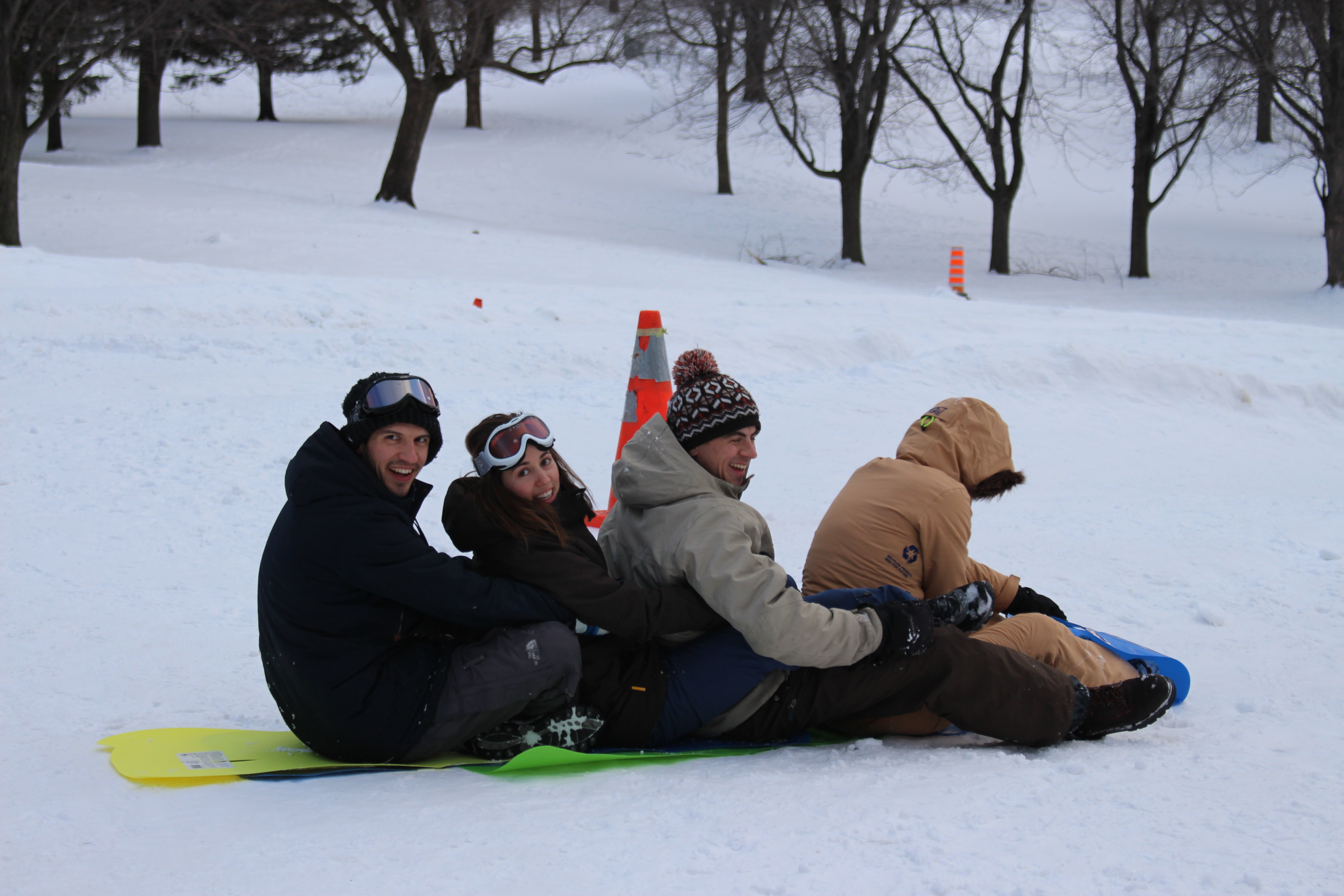 Sledders descend on a slope at the top of Mount Royal in Montreal, Quebec